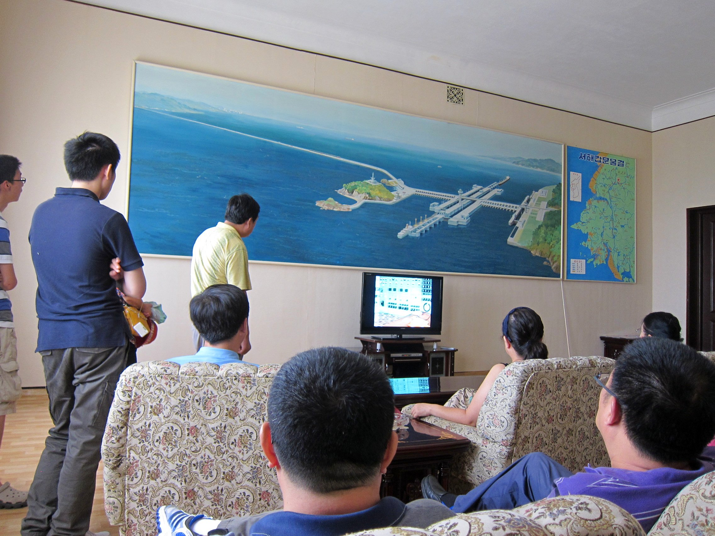 Inside Nampo dam tourist information center / visitor center: film screening about the construction of the dam and the locks